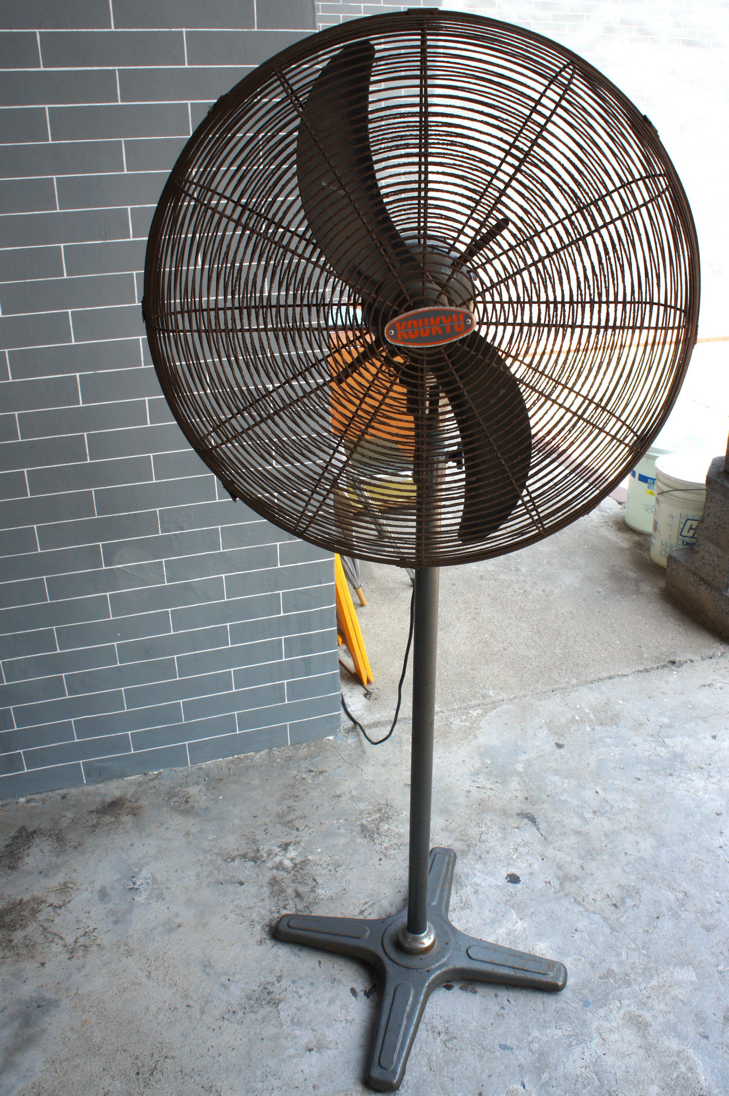 An industrial pedestal fan